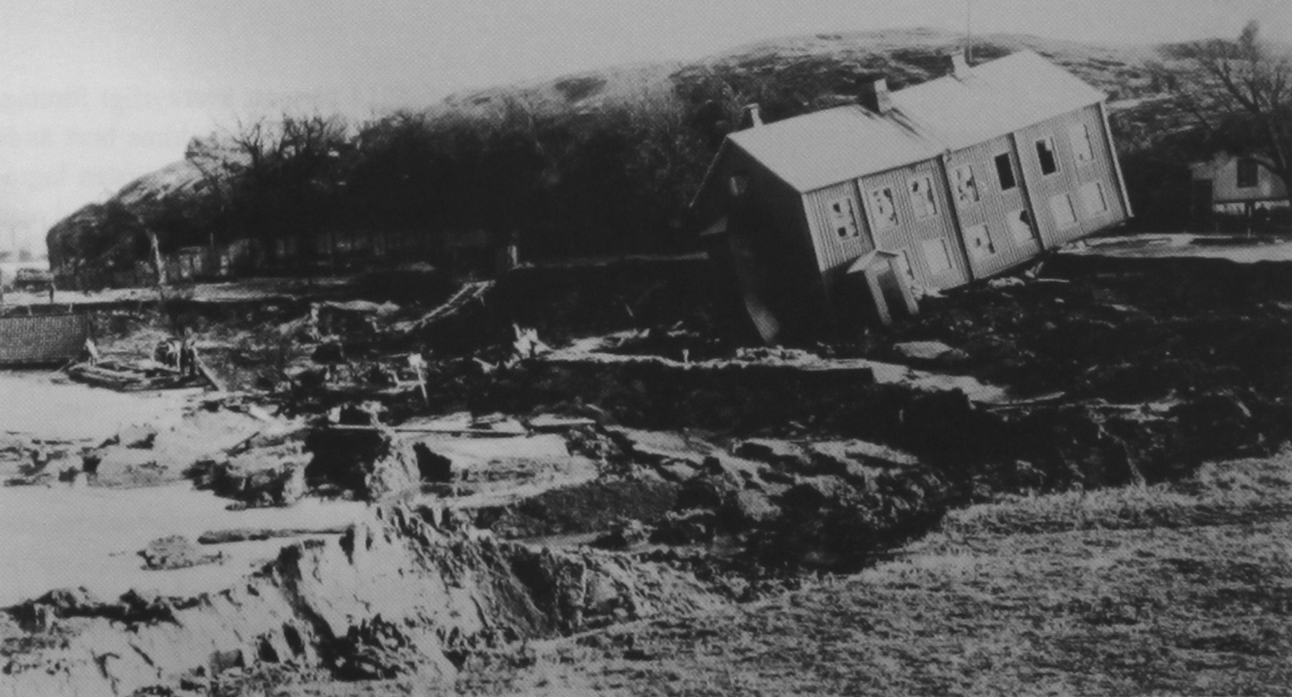 Sannegården seat farm in Lundby socken in Hisingen Island, Gothenburg. The building collapsed 7 april 1911.